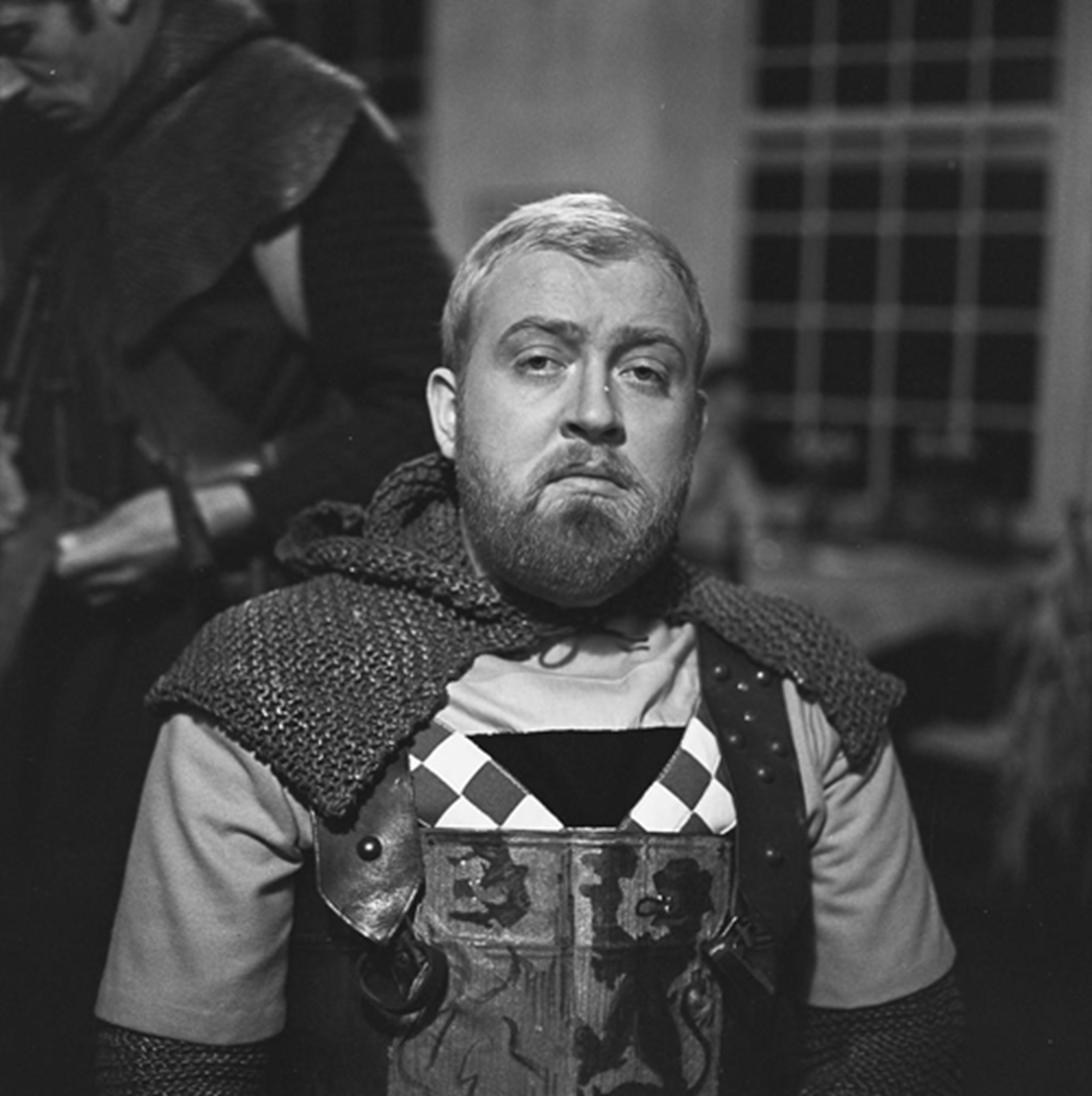 Dutch 1969 TV series Floris. Sergeant (played by Tim Beekman)